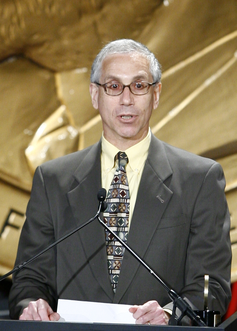 PHOTO CREDIT: ANDERS KRUSBERG / PEABODY AWARDS Jonathan Landman 68th Annual Peabody Awards Luncheon Waldorf=Astoria Hotel New York, NY USA May 17, 2009